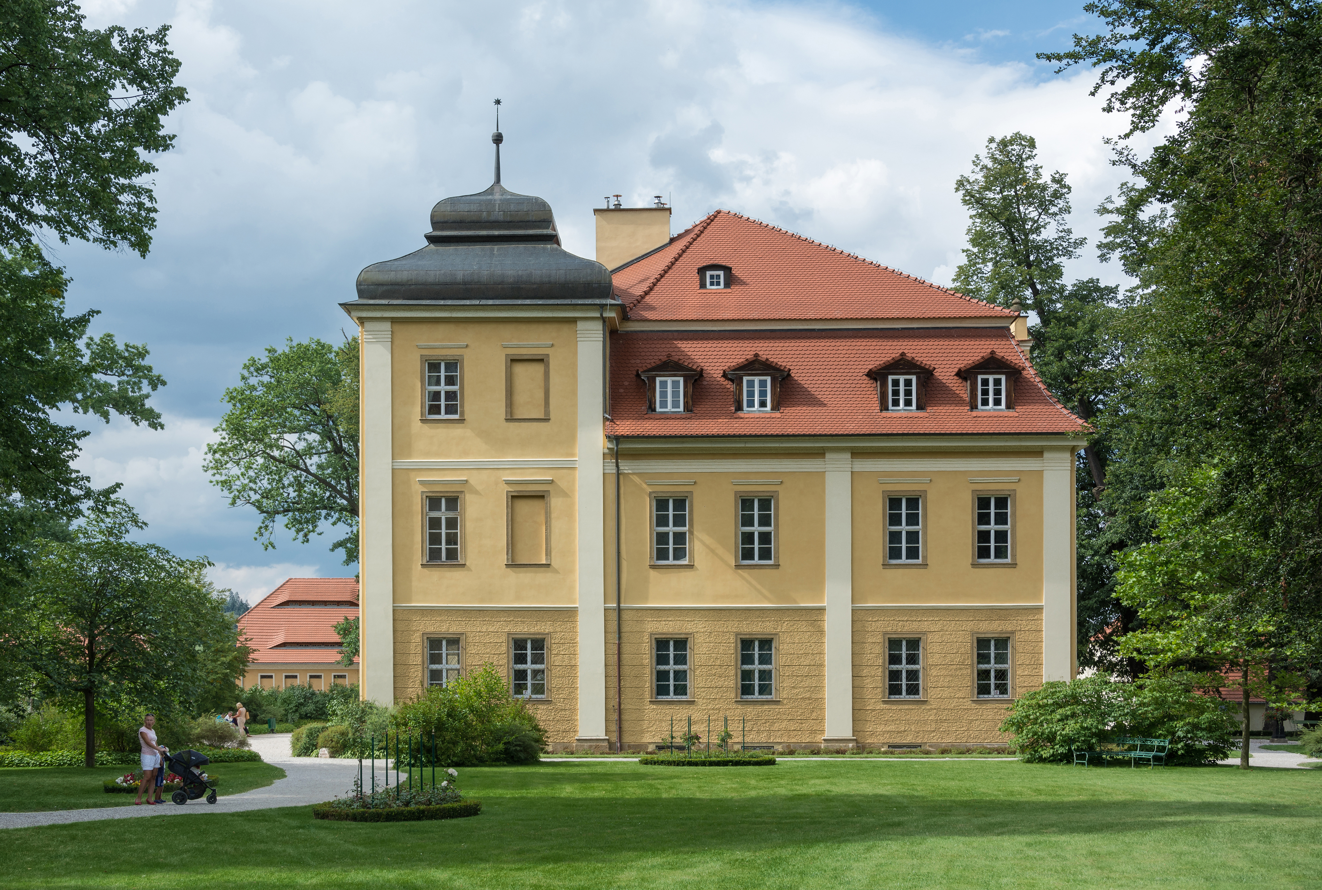 Łomnica Palace Ta fotografia przedstawia zabytek wpisany do rejestru zabytków pod numerem ID 592064